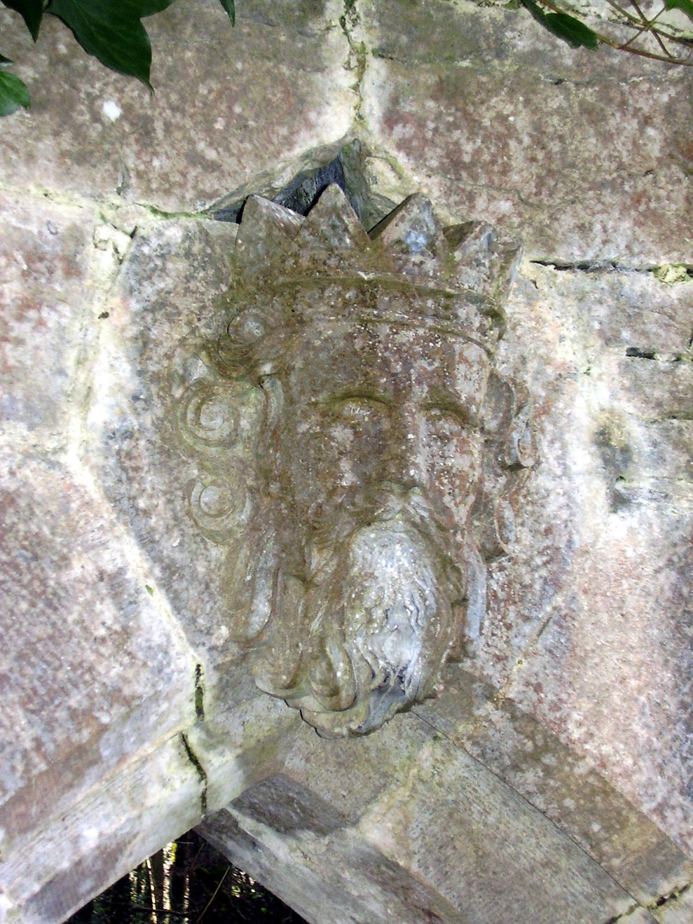 Stone carving of Rory O'Connor from a doorway in the grounds of Cong Abbey